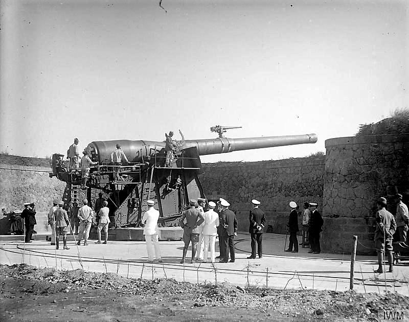 The Italian Army in Albania, 1916-1918 Journalists inspecting a 15inch gun battery along the Adriatic coast.